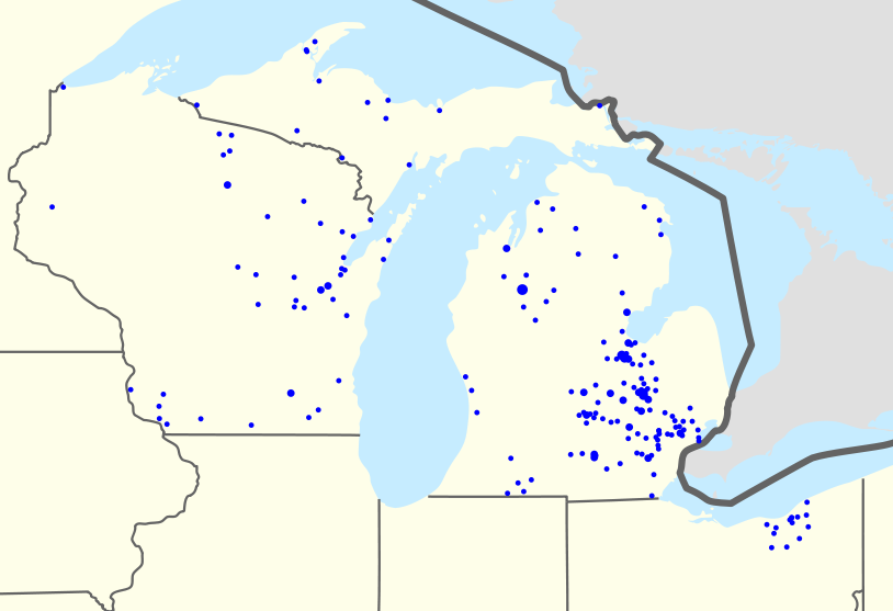 Footprint of Citizens Republic Bancorp within the United States.